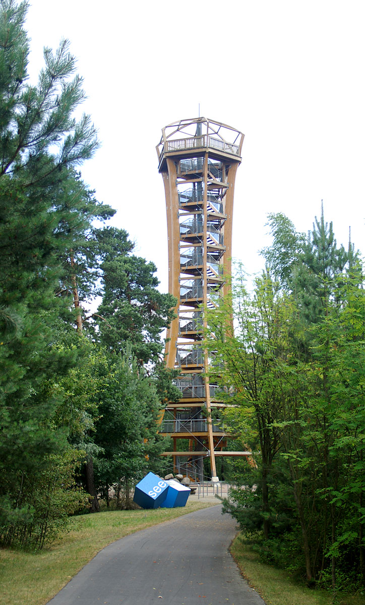 Look-out and landmark at the lake Felixsee in Bohsdorf, Brandenburg, Germany